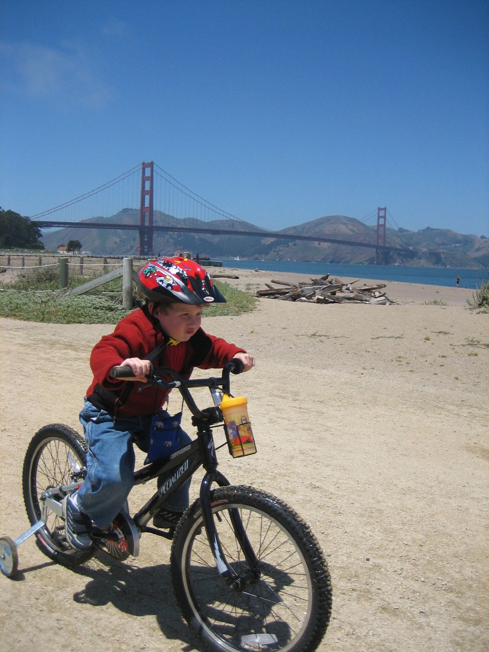 A boy riding a bicycle with training wheels